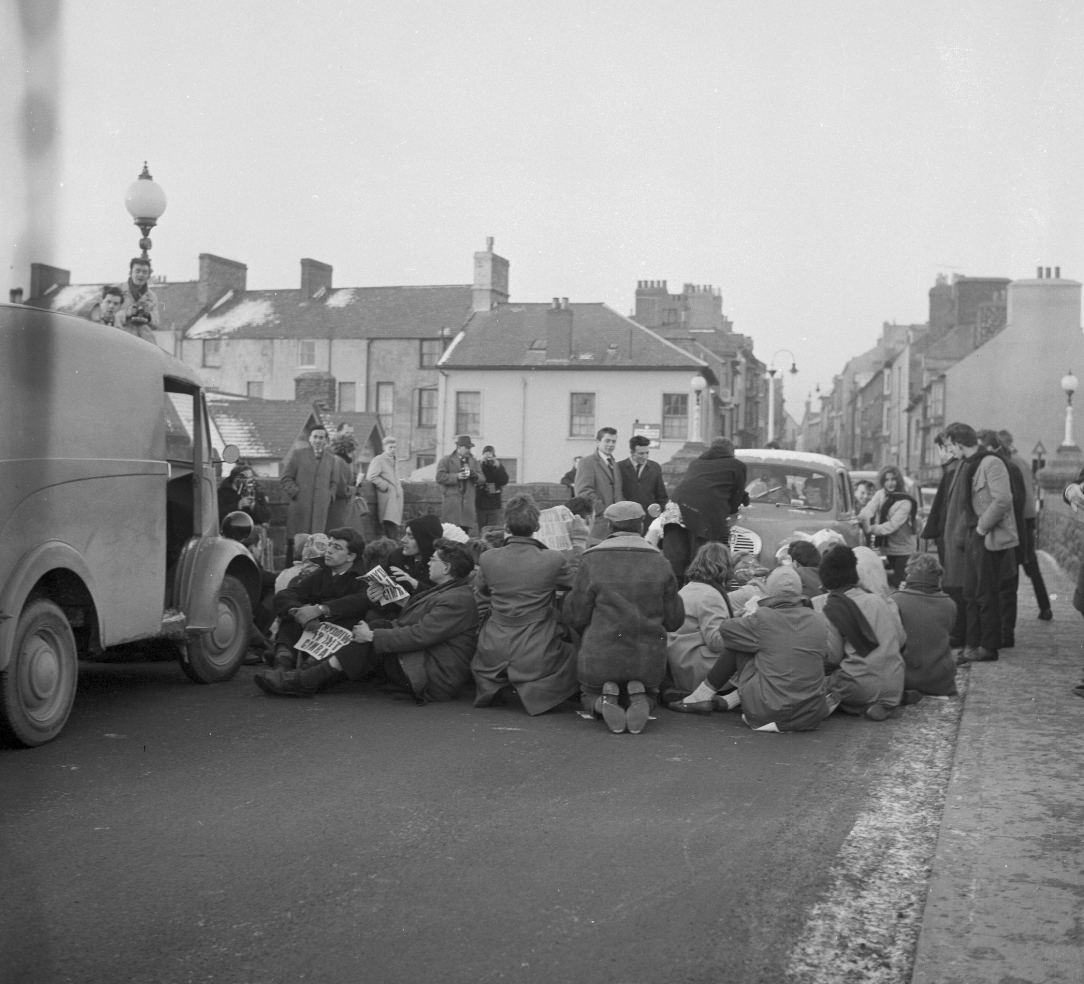 Teitl Saesneg/English title: Cymdeithas yr Iaith's first protest on Trefechan Bridge, Aberystwyth Ffotograffydd/Photographer: Geoff Charles (1909-2002) Dyddiad/Date:Ionawr/ January 7, 1963 Cyfrwng/Medium: Negydd ffilm / Film negative Cyfeiriad/Reference: (gch19031) Rhif cofnod / Record no.: 003471483 Rhagor o wybodaeth am gasgliad Geoff Charles yn Llyfrgell Genedlaethol Cymru More information about the Geoff Charles Collection at the National Library of Wales Mae ffotograffau Geoff Charles hefyd yn rhan o Broject Europeana Libraries Geoff Charles' photographs also form part of the Europeana Libraries Project